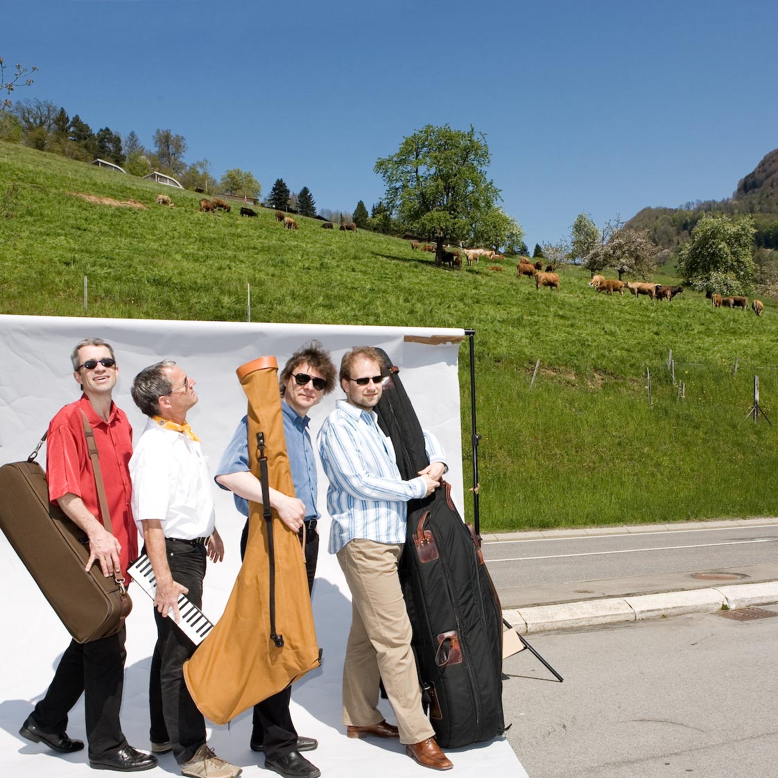 Pago Libre, fr. l. to r.: Tscho Theissing, John Wolf Brennan, Arkady Shilkloper & Georg Breinschmid